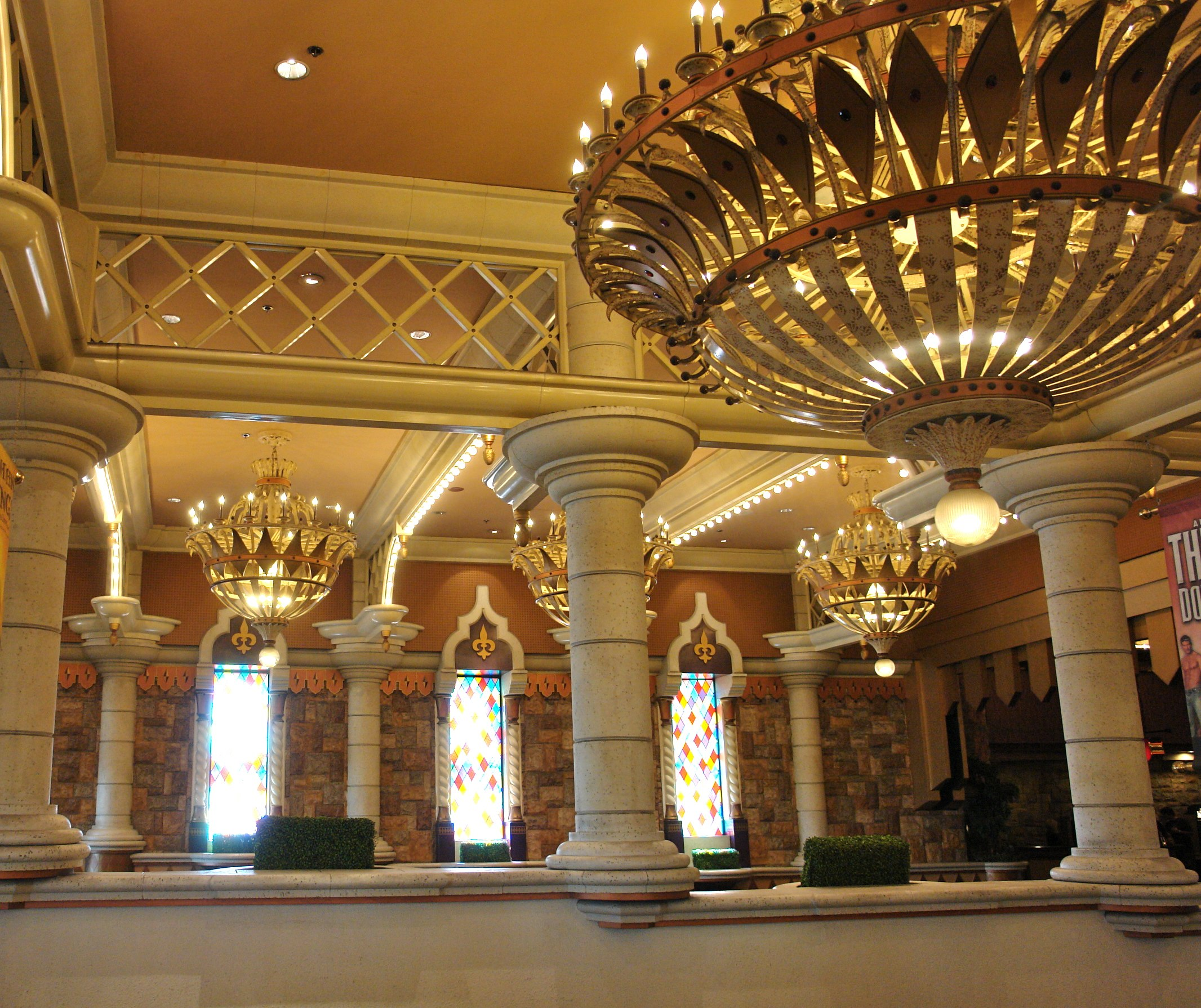 Interior of Excalibur Hotel and Casino